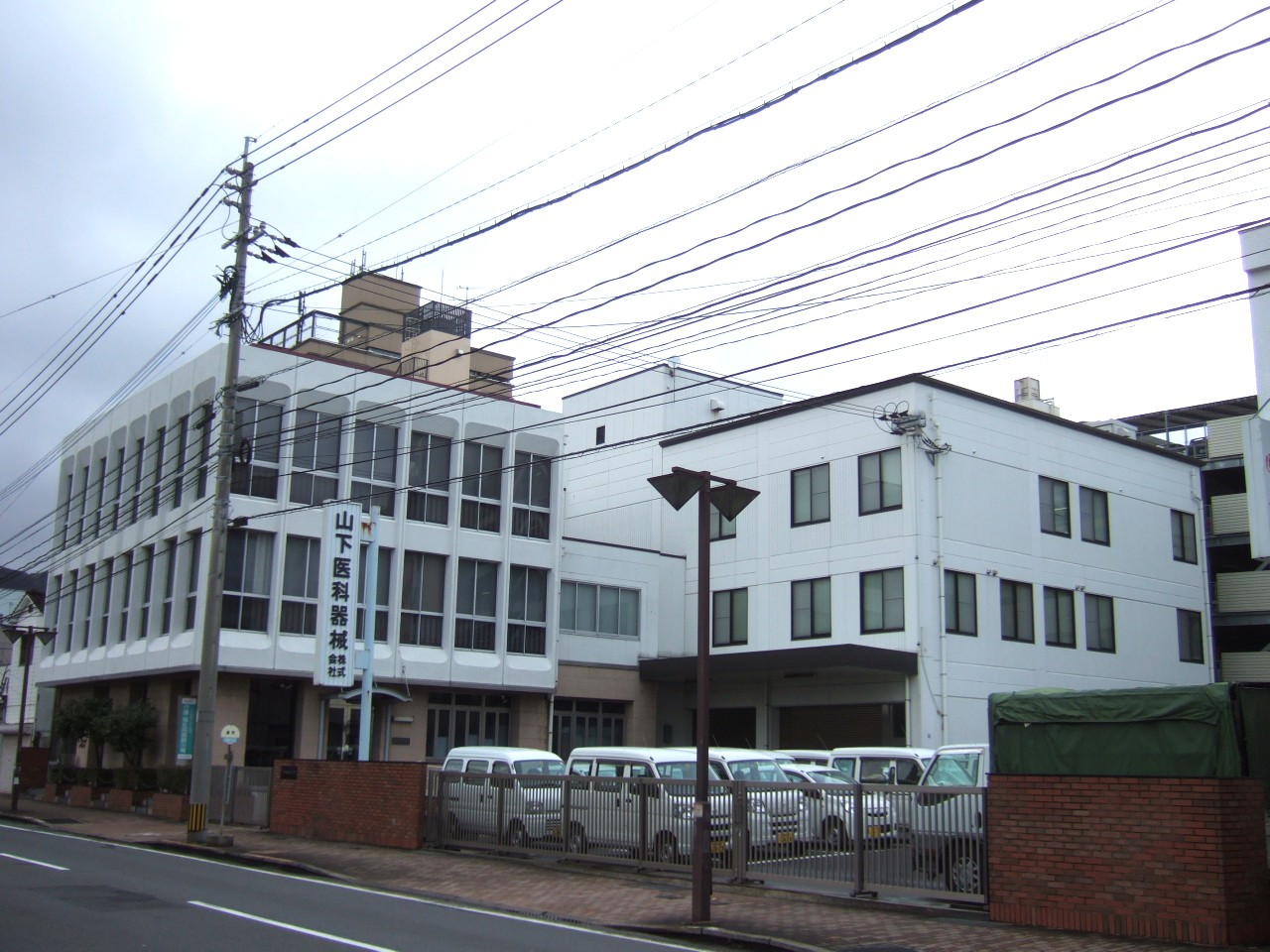 Yamashita Medical Instruments Sasebo Head Office